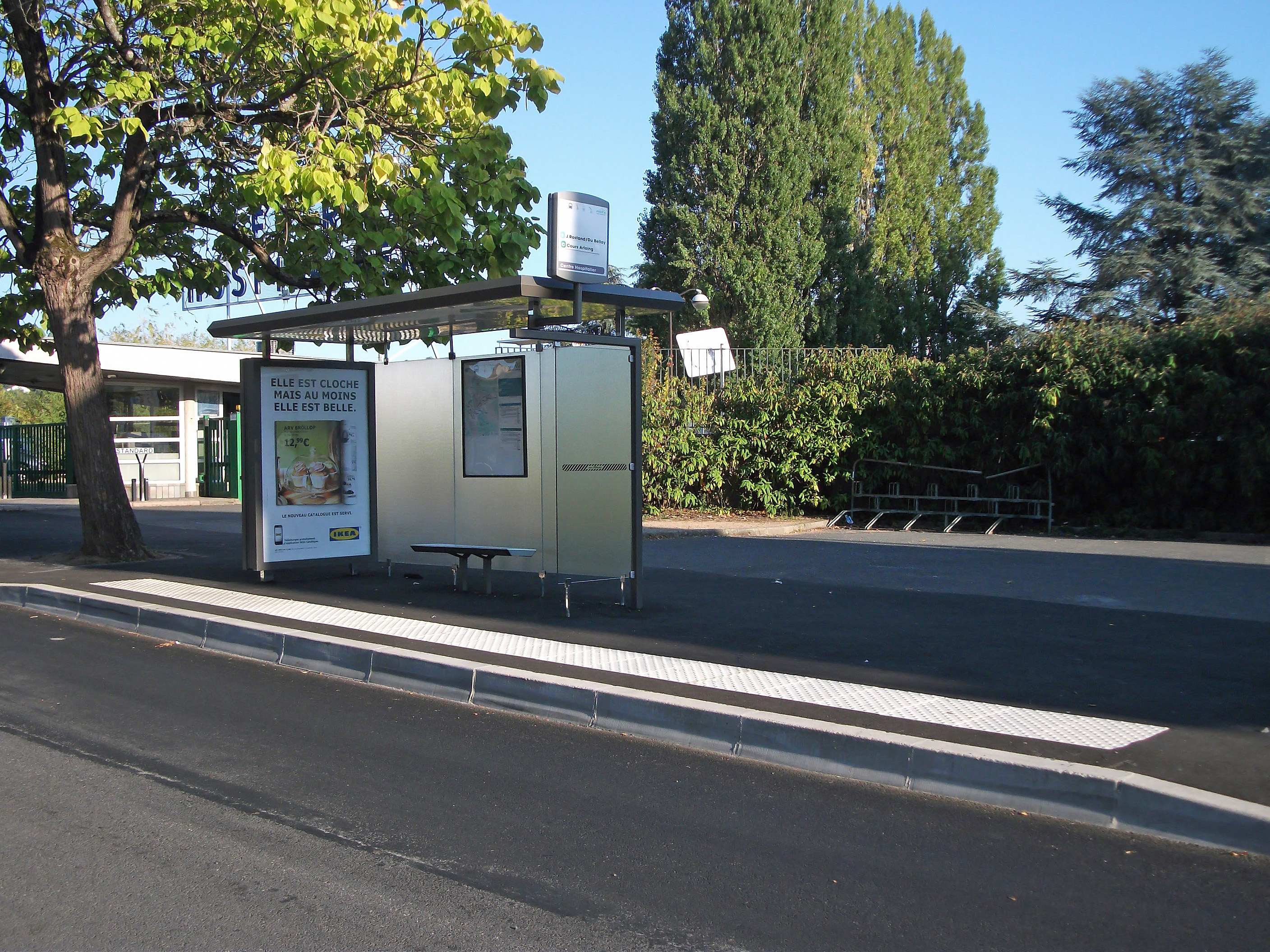 Bus stop Centre Hospitalier (lines B and C), accessible for disabled, in Vichy, Allier, Auvergne, France - network: MobiVie [9113]